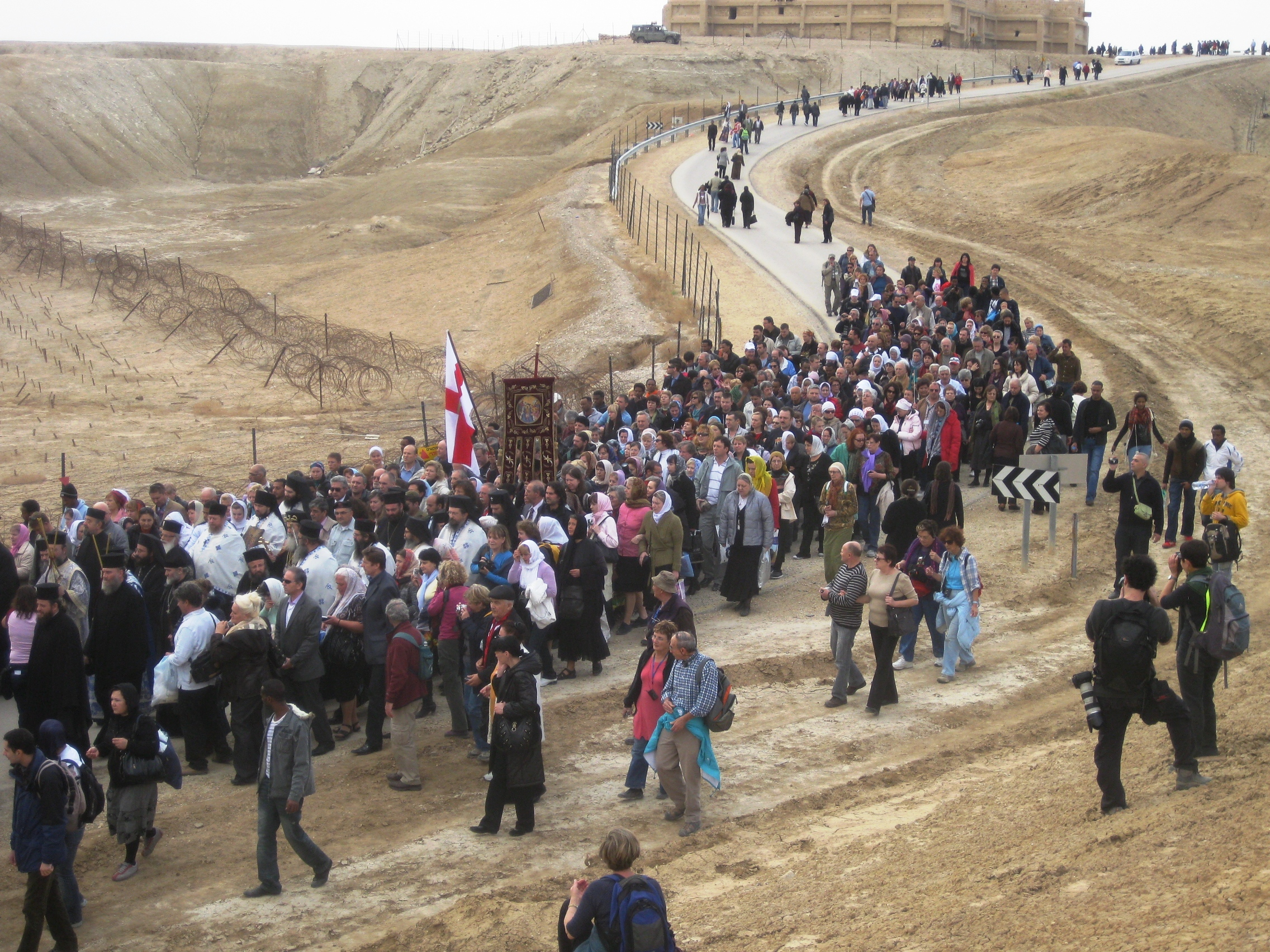 Pictures from the baptism on Epiphany (January 18) of the Greek Orthodox Church